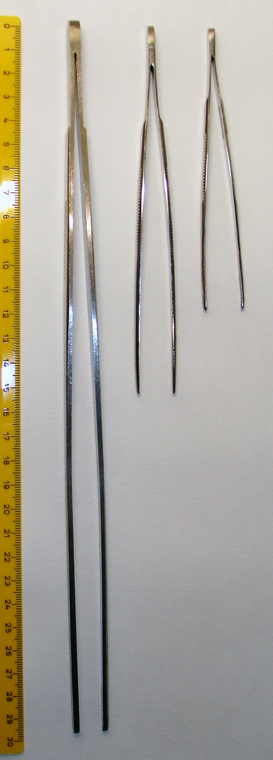 Laboratory tweezers